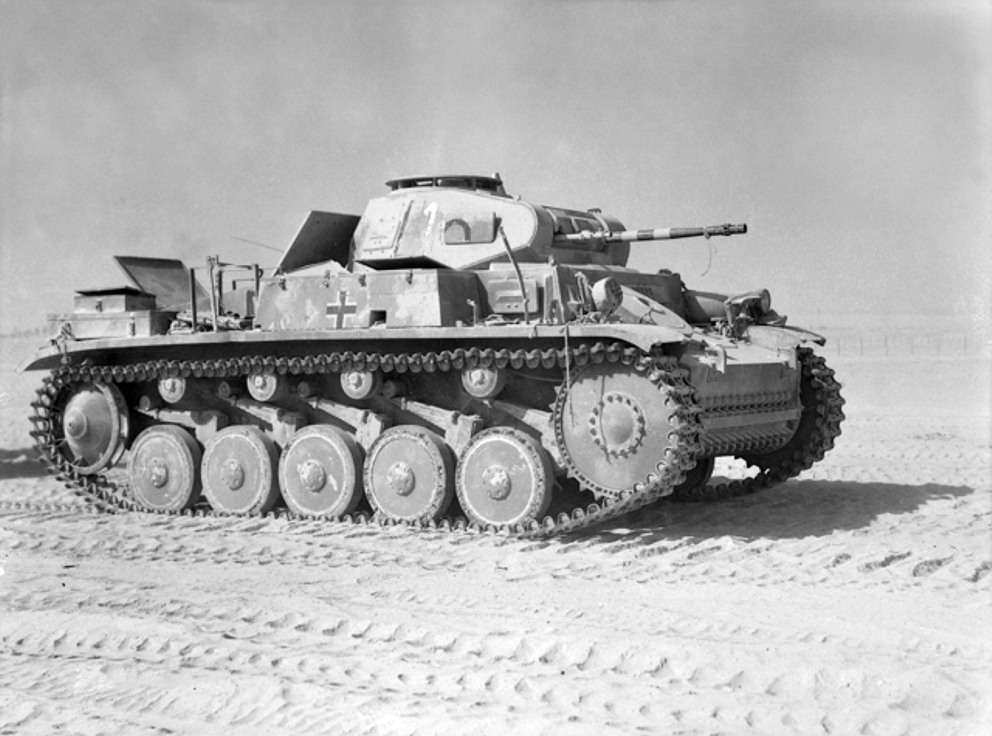 A captured Panzer II near El Alamein, Egypt, in August 1942.